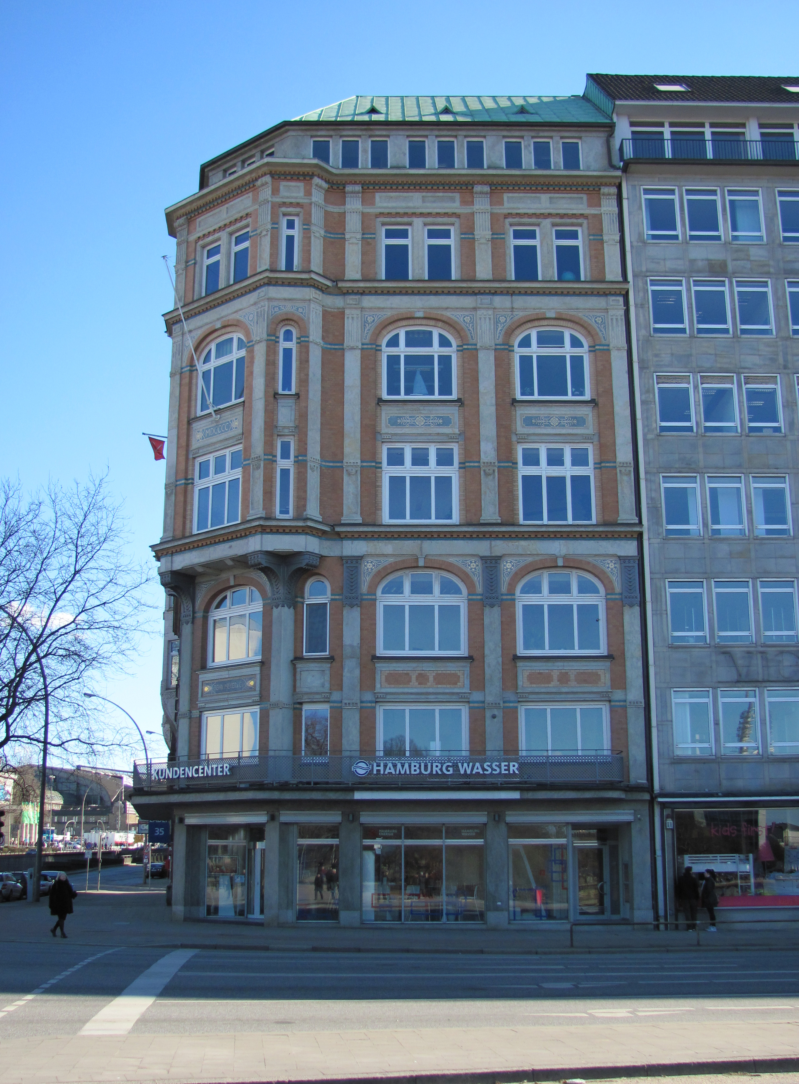 Building Ballindamm 1, Hamburg, honorary consulate of Jamaica